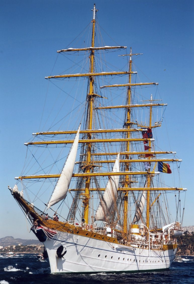 The Romanian barque "Mircea"